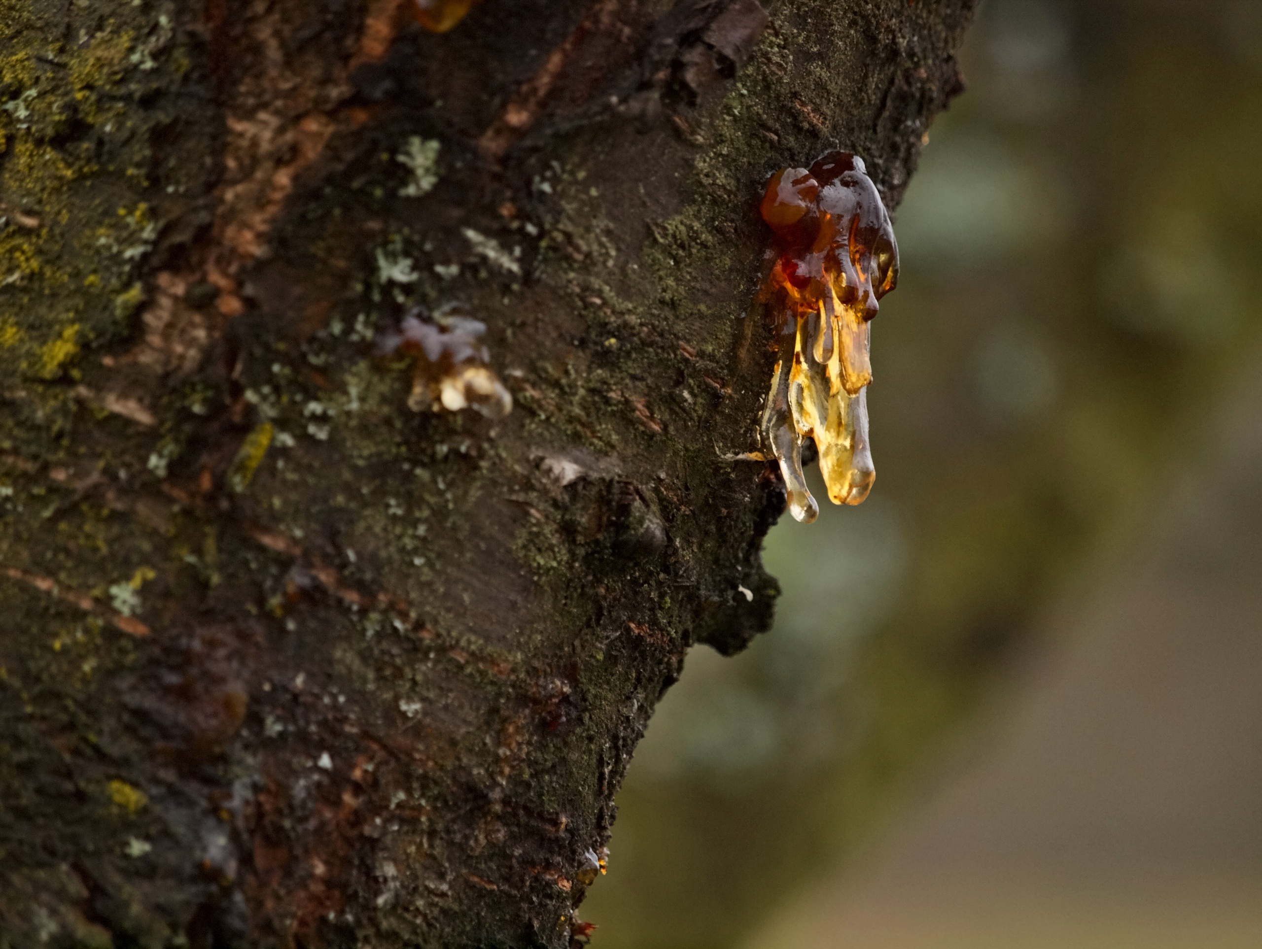 Resin drops on a cherry tree